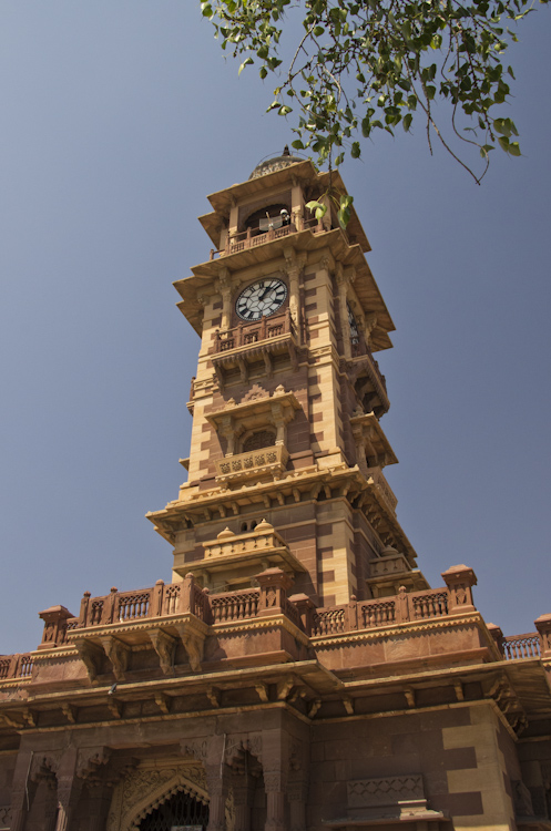 The Clock Tower in the old city centre of Jodhpur, Rajasthan.